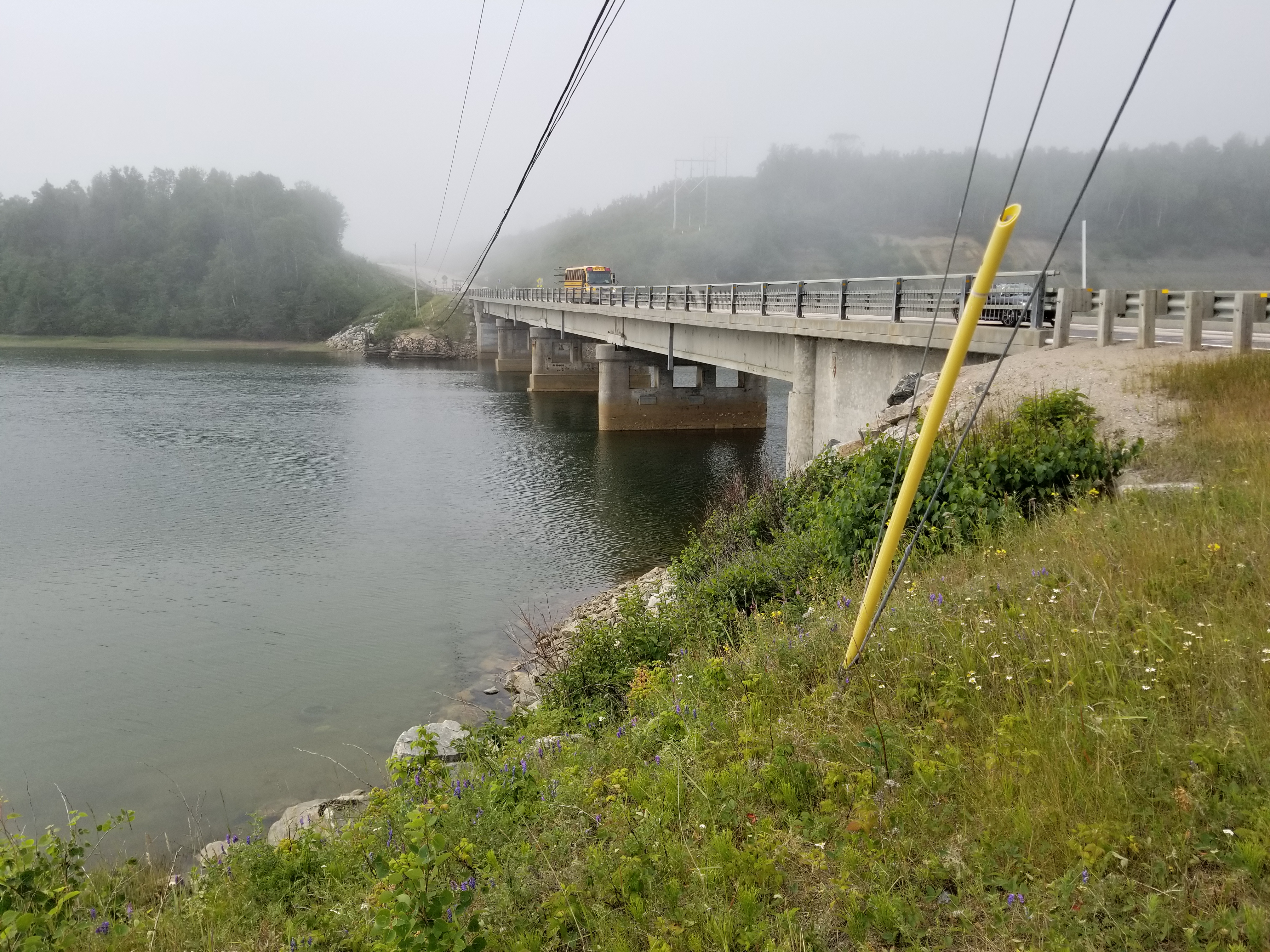 Highway 138 bridge spanning the Portneuf River in Portneuf-sur-Mer.